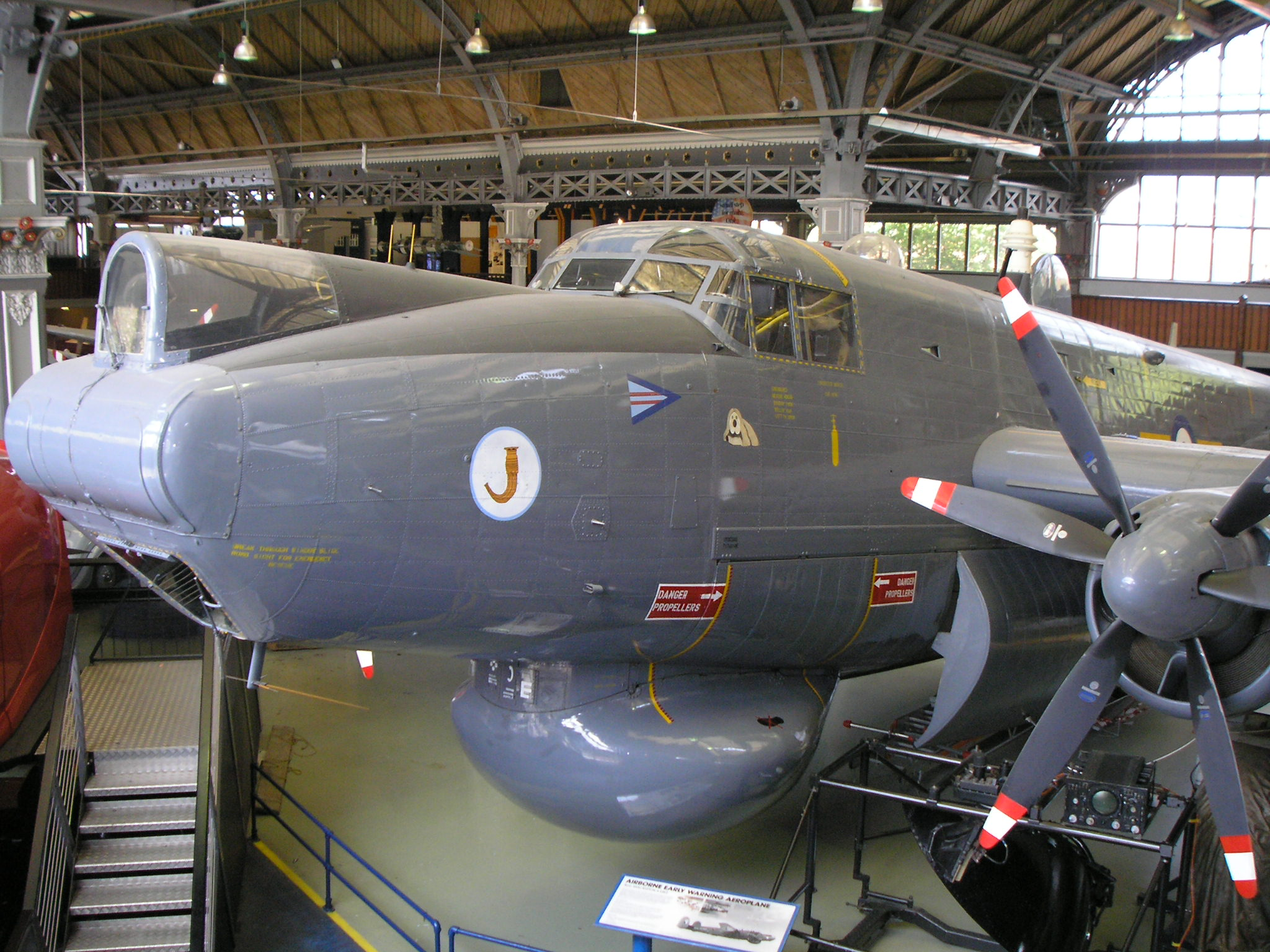 An airborne early warning variant of the Avro Shackleton on display at the Museum of Science and Industry in Manchester.